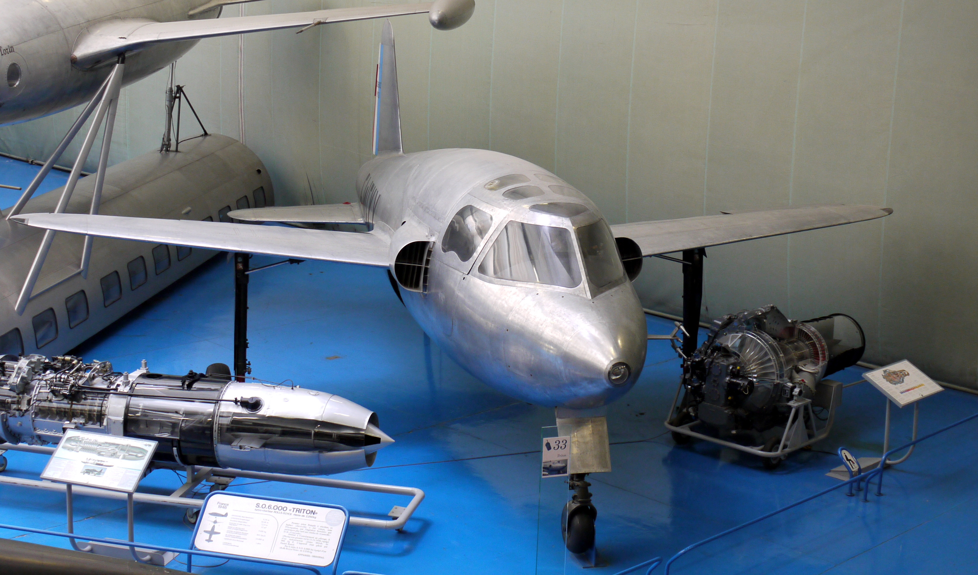 SO.6000 Triton first French jet aircraft (1946), Museum of Air and Space Paris, Le Bourget (France)